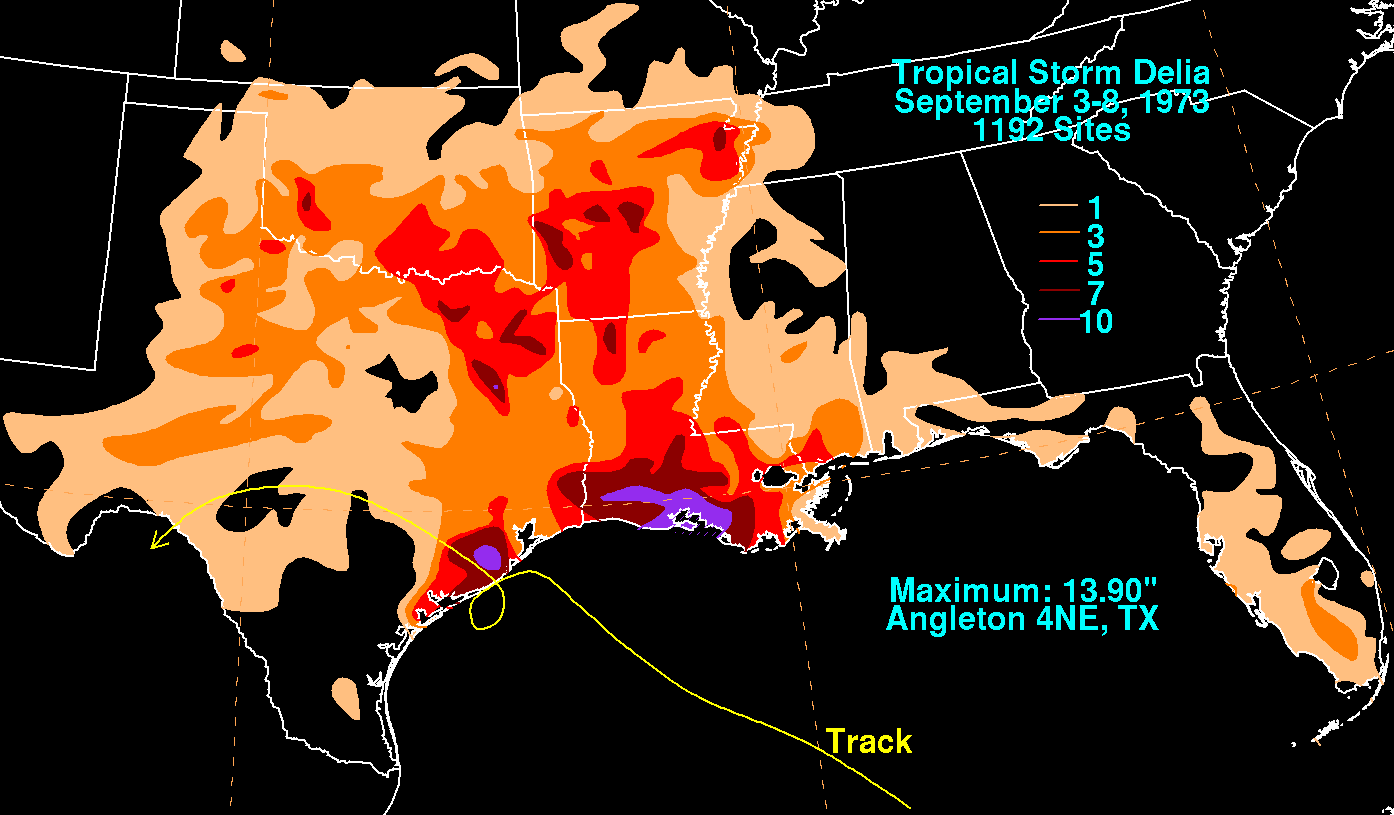 Storm total rainfall map of Tropical Storm Delia during September 1973.